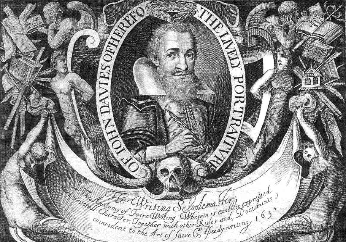 Scan of portrait facsimile from